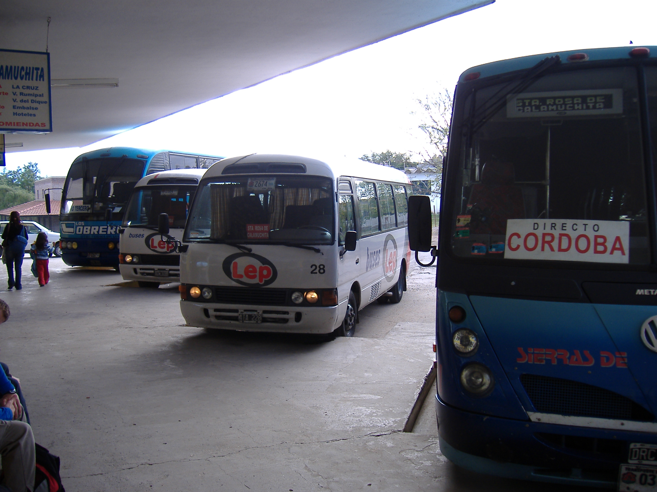 Bus terminus and medium-distance buses in Santa Rosa de Calamuchita, province of Córdoba, Argentina.